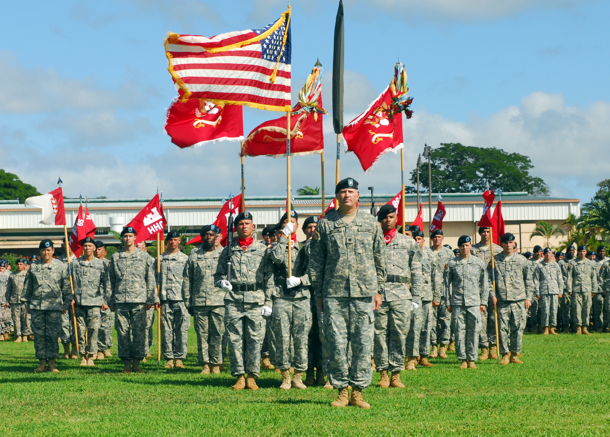 Lt. Col. James Horton, executive officer of the 130th Eng. Bde., acts as the Commander of Troops during a ceremony at Schofield Barracks' Sills Field Oct. 23. The ceremony uncased the Engineer brigade's colors, and officially completed the units' move from Germany to Hawaii